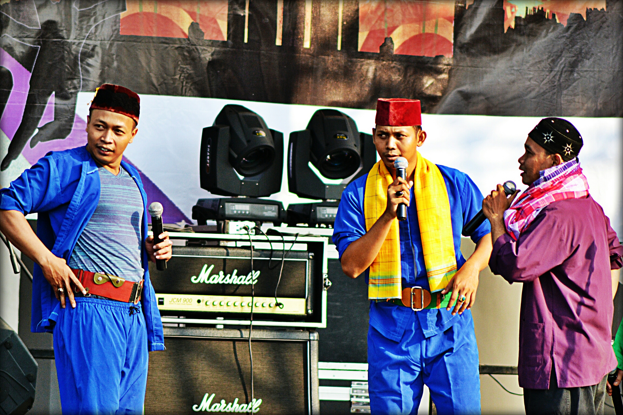 Lenong at Batavia Festival 2012 at Museum Fatahillah, Jakarta.